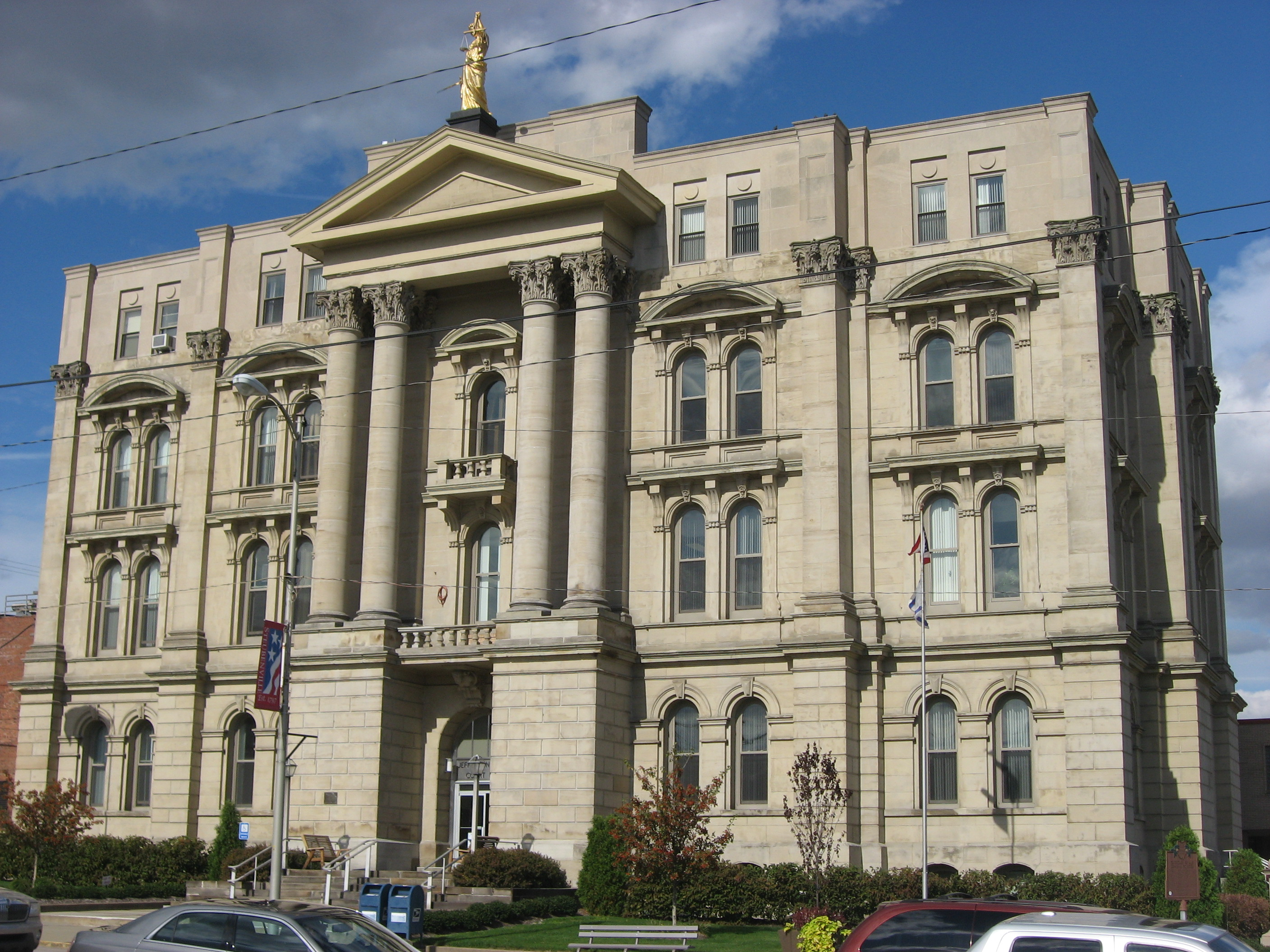 Front and eastern side of the Jefferson County Courthouse, located at 301 Market Street in Steubenville, Ohio, United States. Built in 1874, it is part of the Steubenville Commercial Historic District, a historic district that is listed on the National Register of Historic Places.